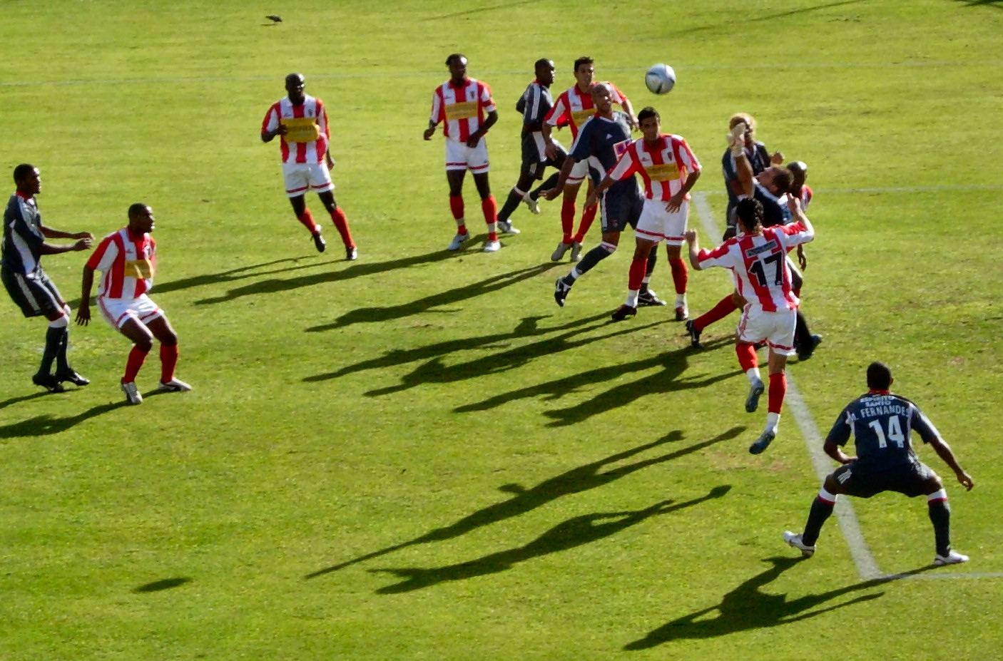 Friendly match between Barreirense and Benfica.